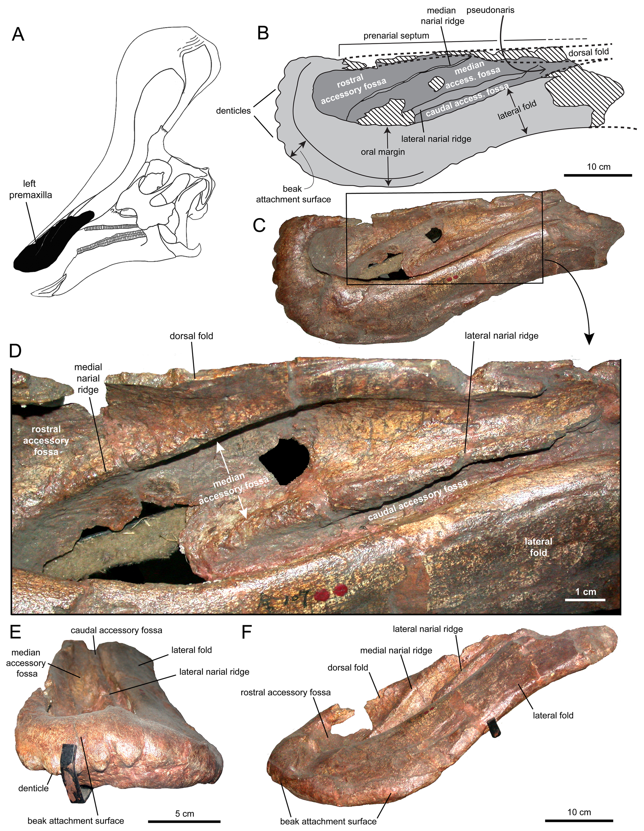 Left premaxilla of Tsintaosaurus spinorhinus (IVPP K107). Premaxilla in (A) rostrodorsal and (C) rostral views. B. Insert of our reconstruction of the skull of T. spinorhinus showing the position of the prefrontal (solid black).